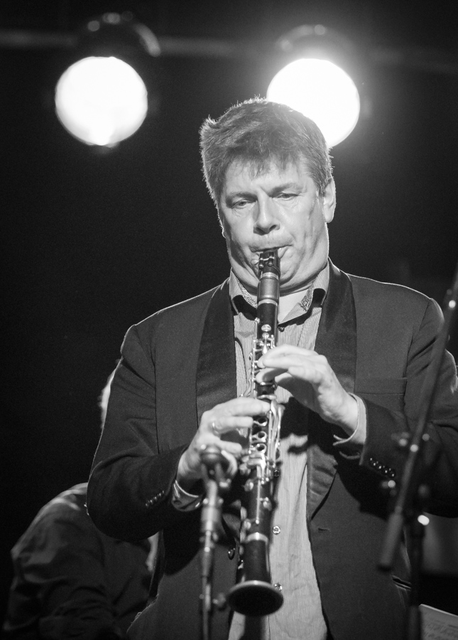 Carl Petter Opsahl with Norbert Susemihl at the stage at Gamla at Stortorvets Gjæstgiveri. The concert was part of Oslo Jazzfestival and took place on 18. August 2017. Lineup: Norbert Susemihl (trumpet), Carl Petter Opsahl (clarinet), Morten Gunnar Larsen (piano), Hans Ingelstam (trombone), Jens Kristian Andersen (double bass) and Torstein Ellingsen (drums).